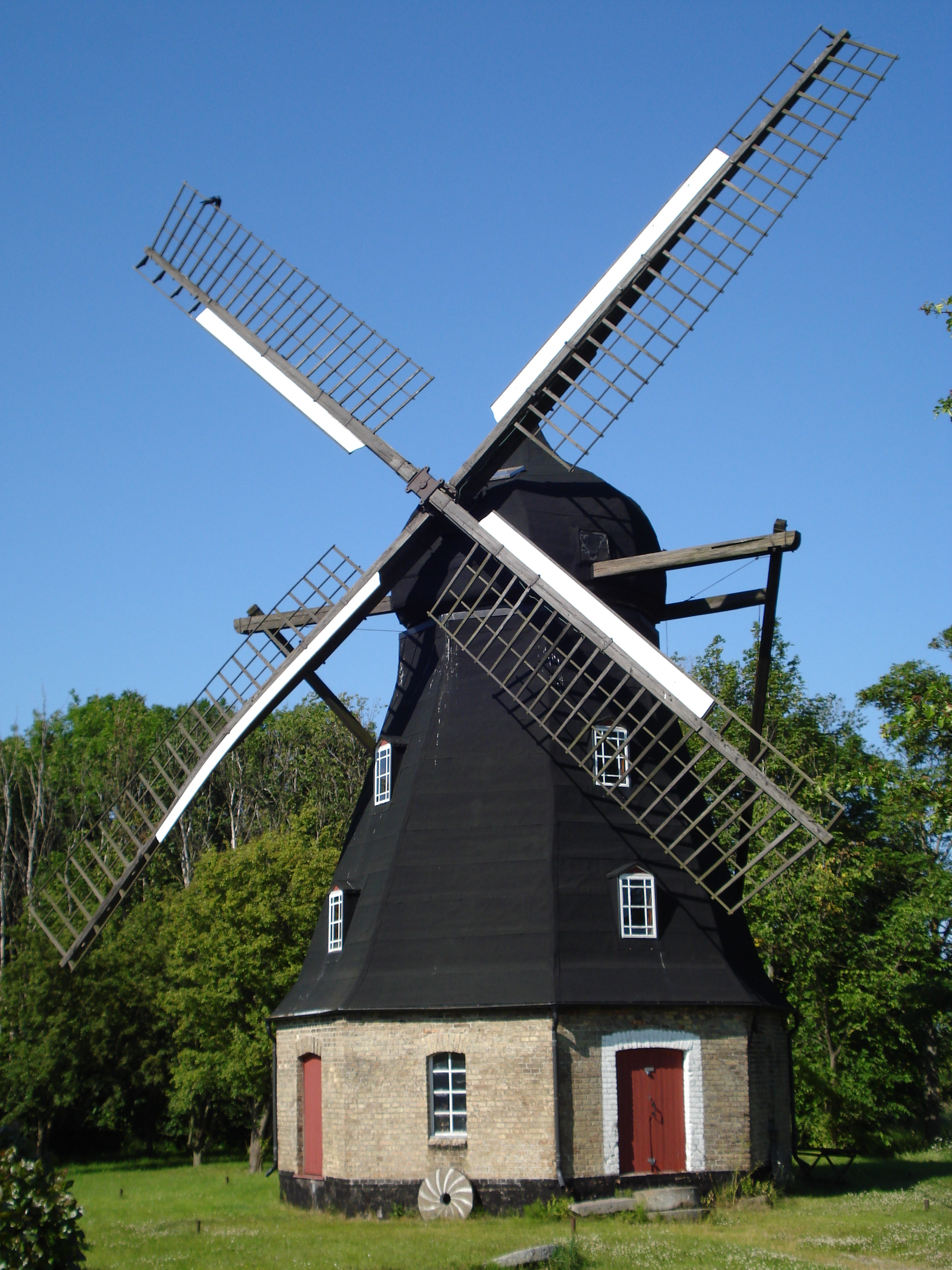 Windmill in Flackarp near Lund, Sweden.